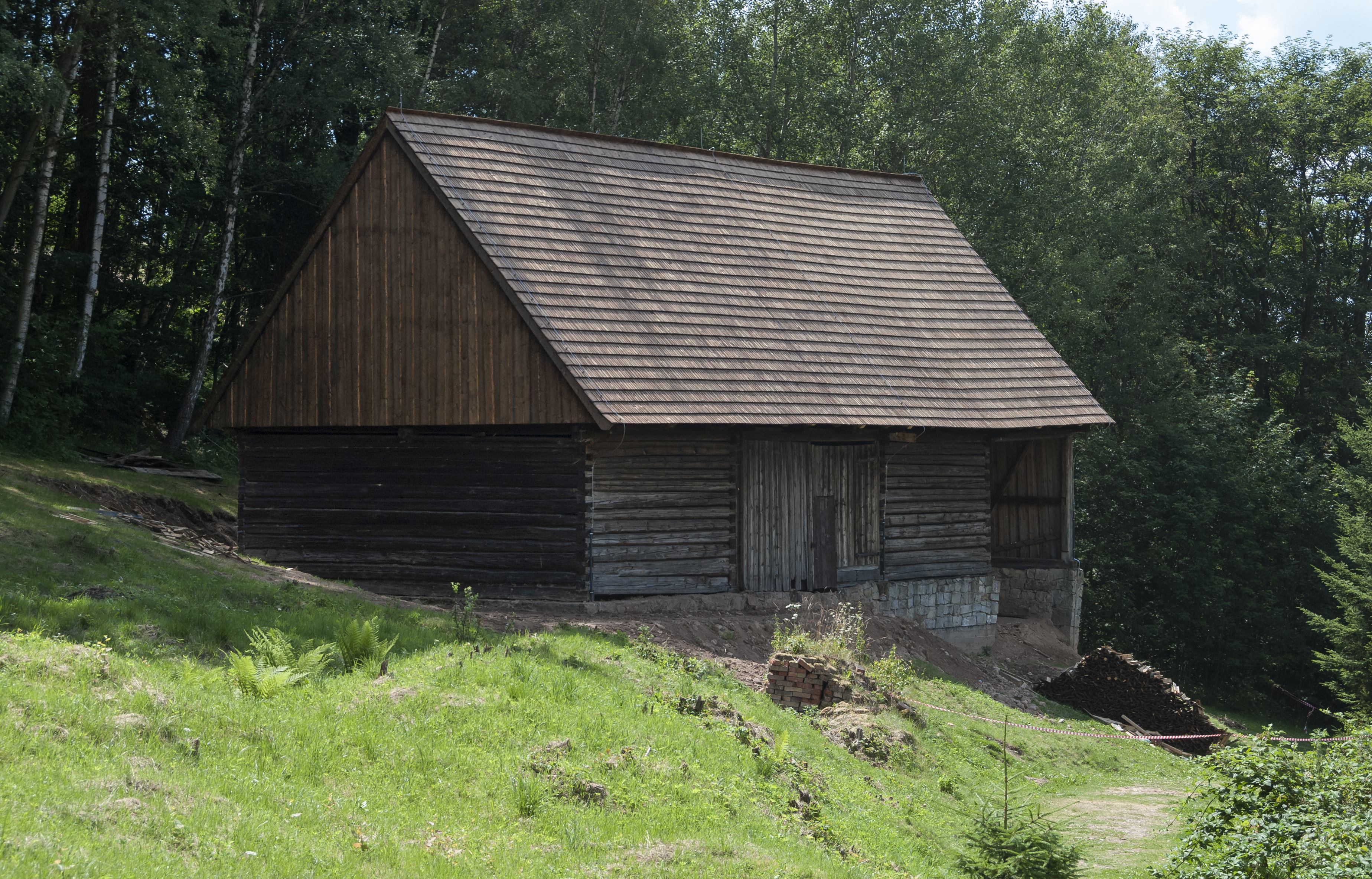 Wooden barn in Pstrążna